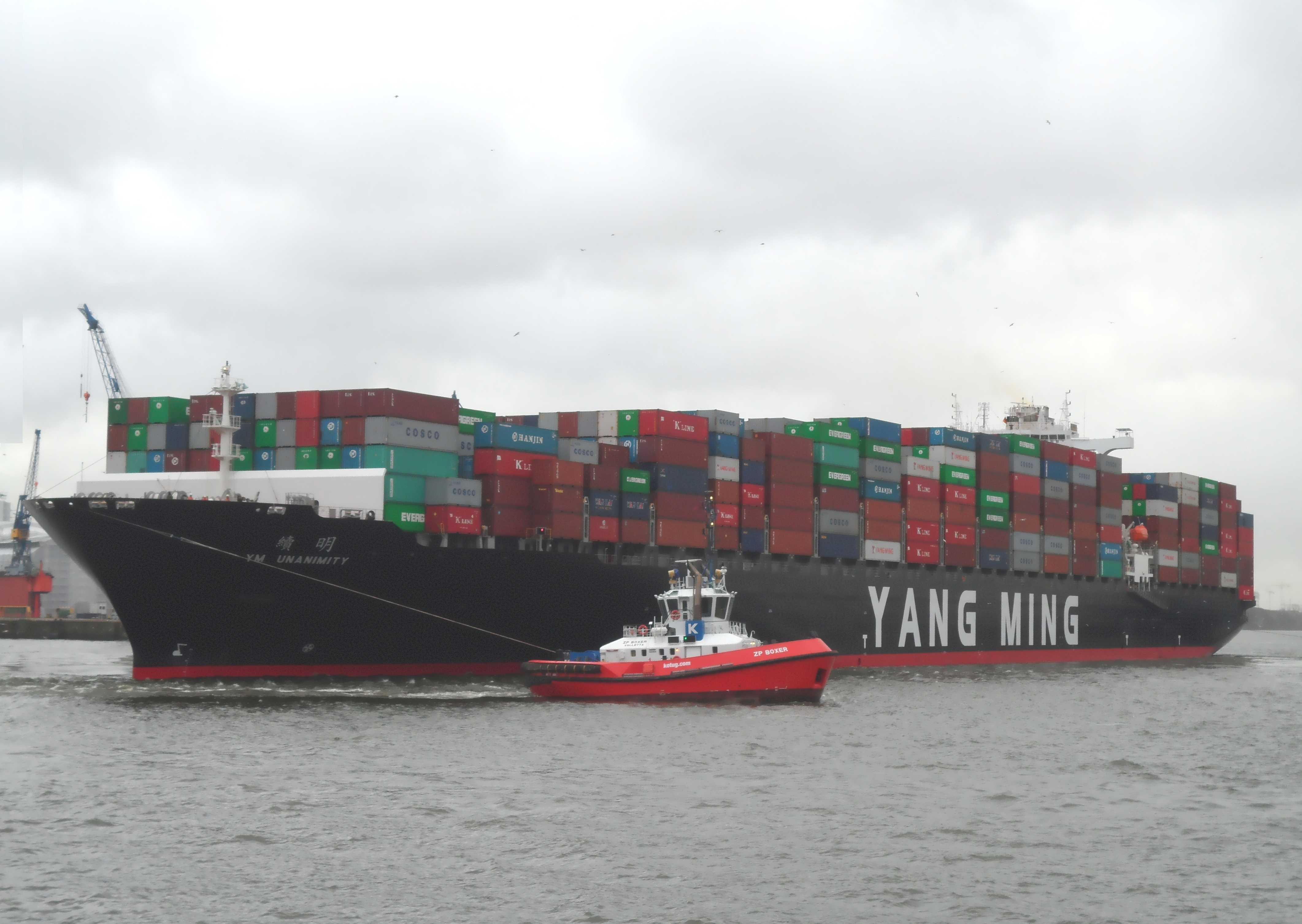 Container ship YM Unanimity of Yang Ming Line when turning in the port of Hamburg in December 2013